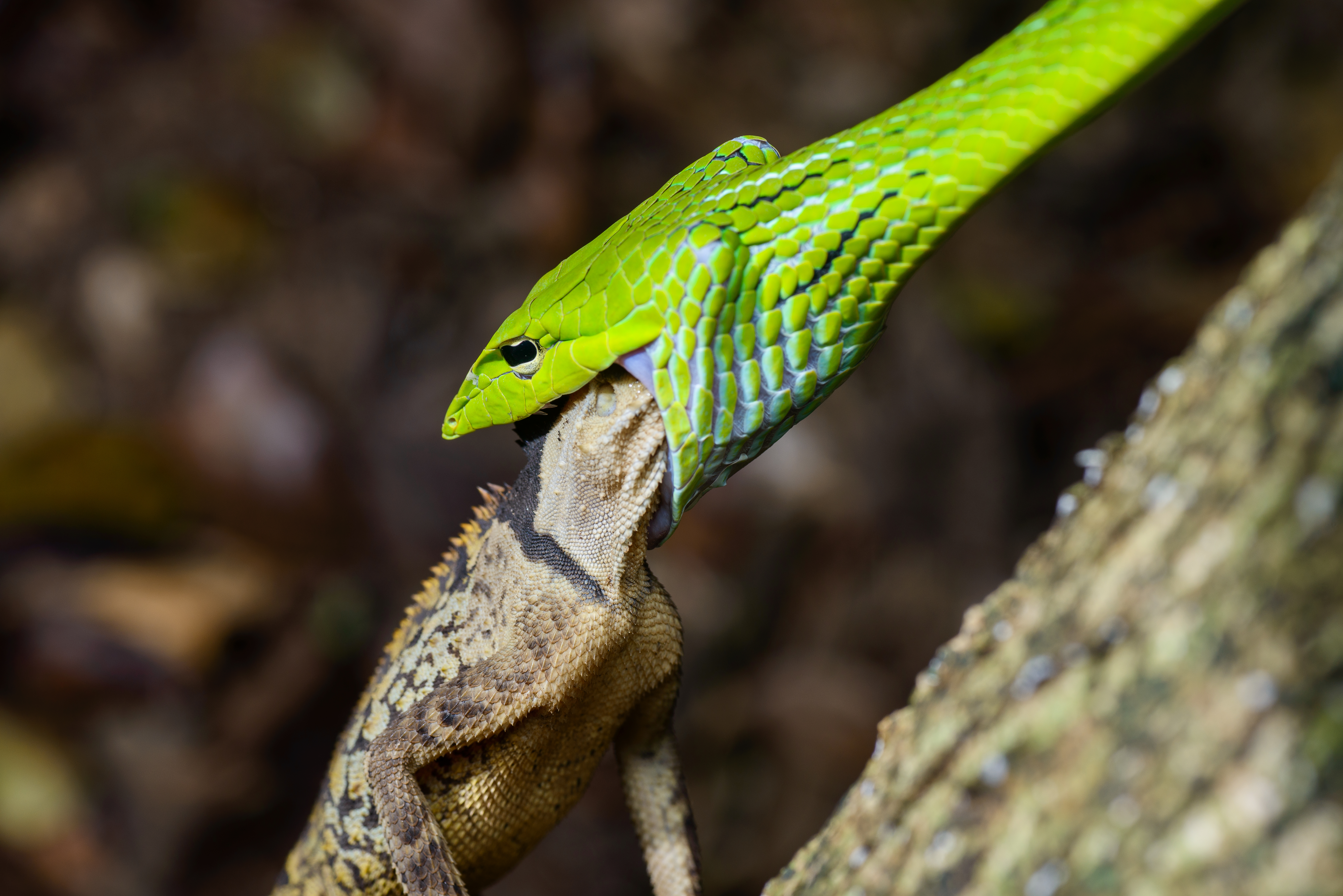 Asian vine snake (Ahaetulla prasina) eating masked horned tree lizard (Acanthosaura crucigera). Kaeng Krachan National Park, Thailand.